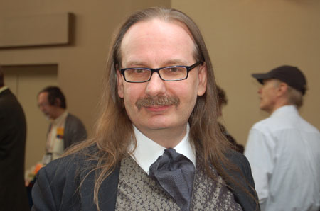 British writer and film critic Kim Newman.